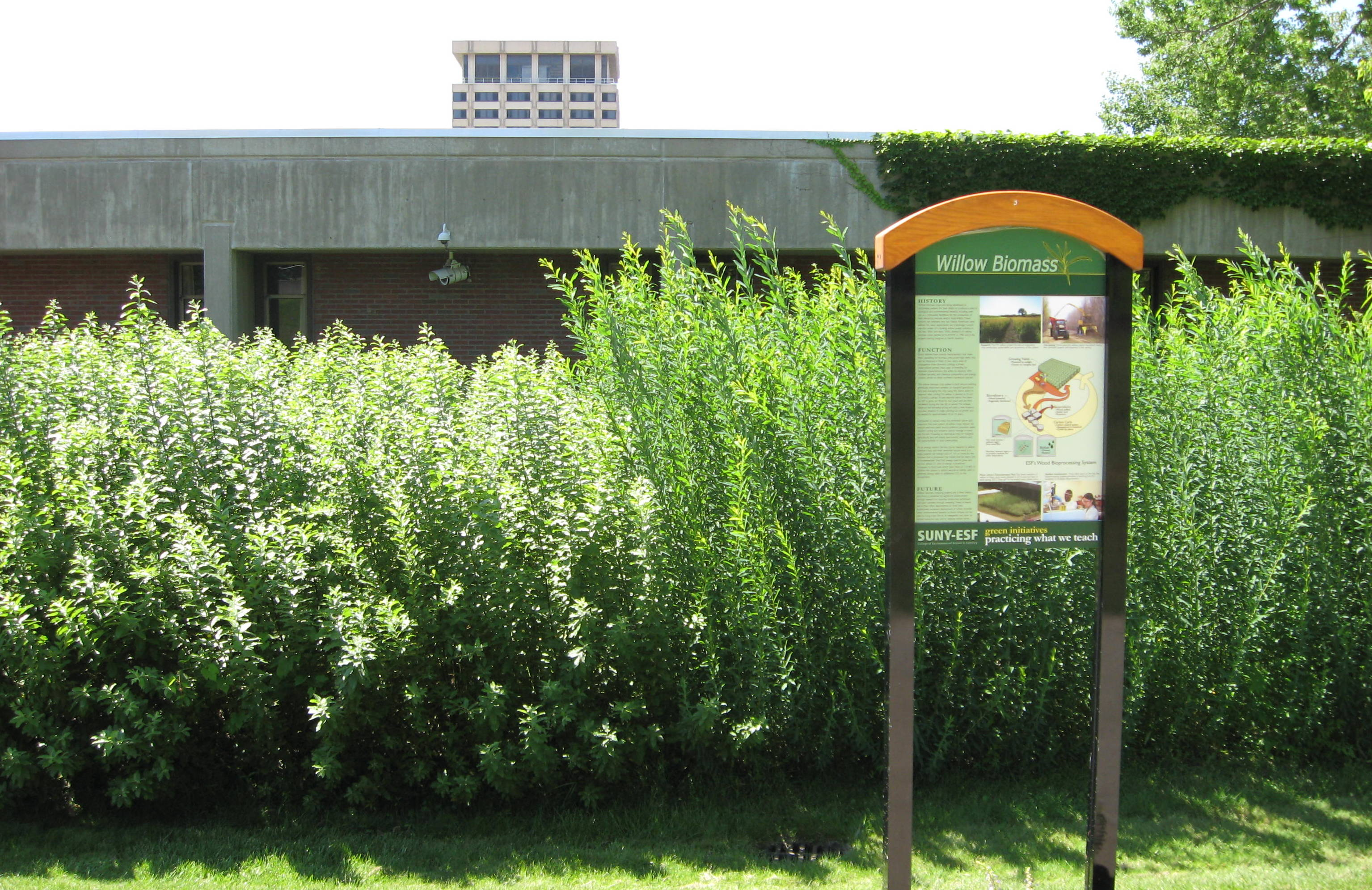 Willow Biomass Project demonstration plot, SUNY College of Environmental Science and Forestry, Syracuse, NY